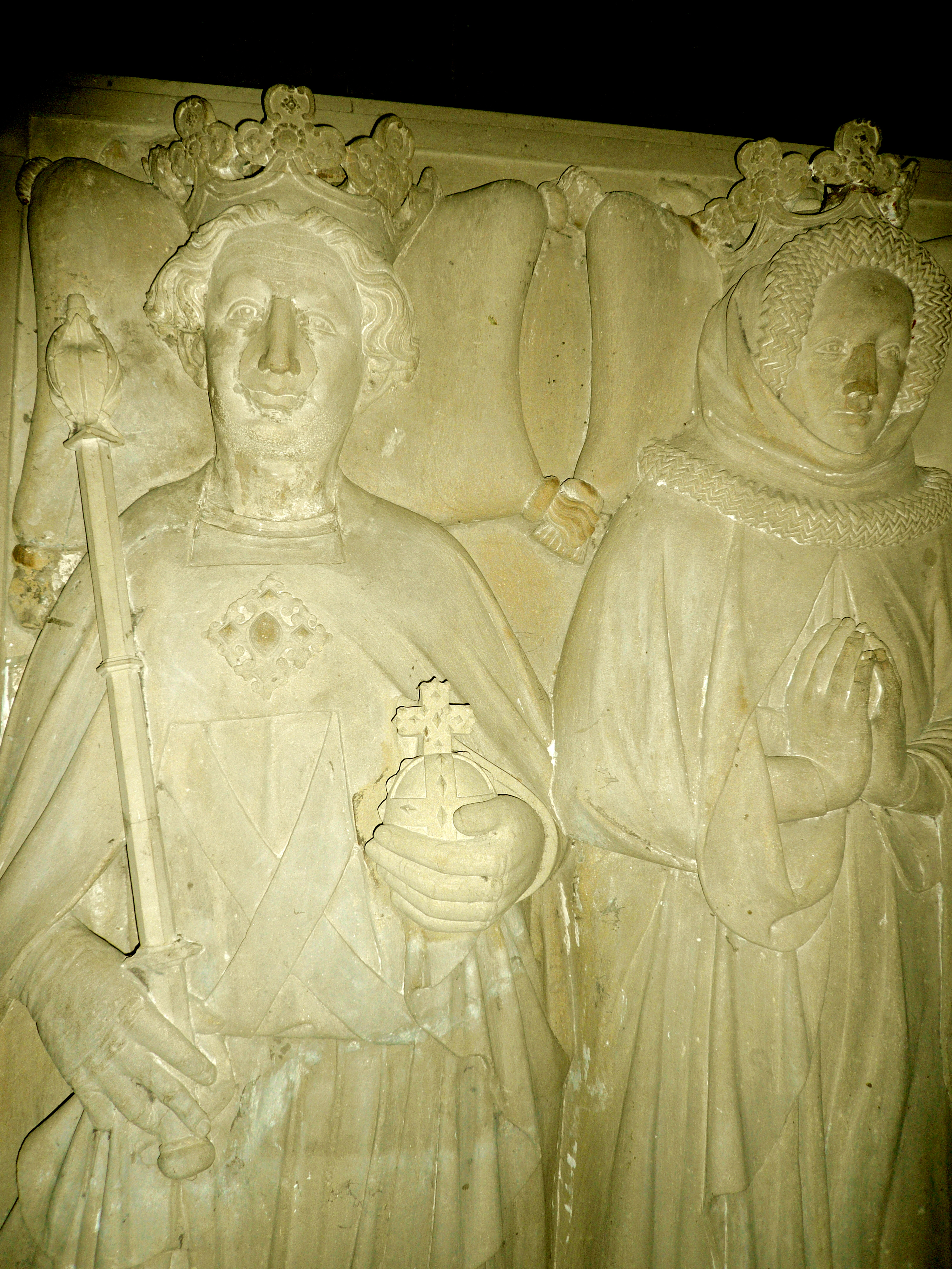 Tomb of Ruprecht 3rd von der Pfalz, king of Germany and princeps of Pfalz, at Heiliggeistkirche, Heidelberg